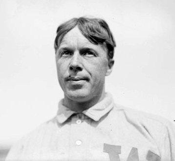 Picture of Case Patten